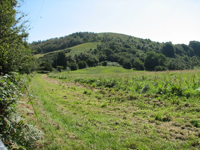 Gray Hill